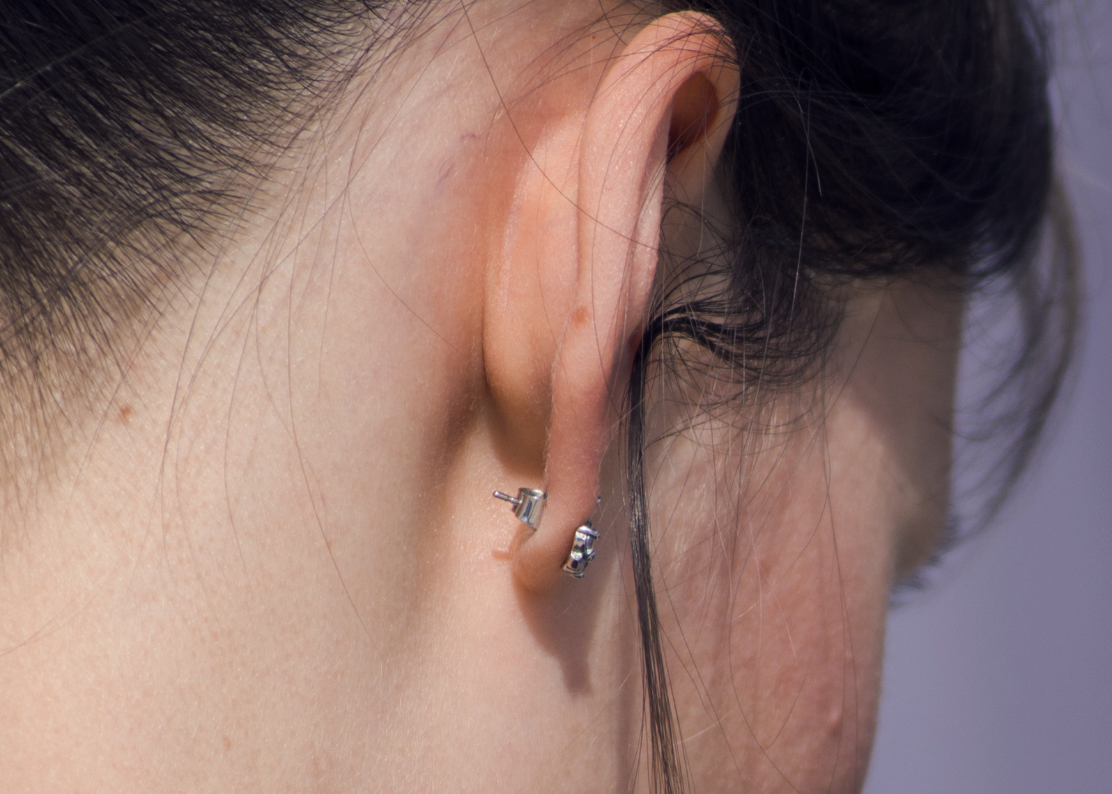 A girl wearing an earring.